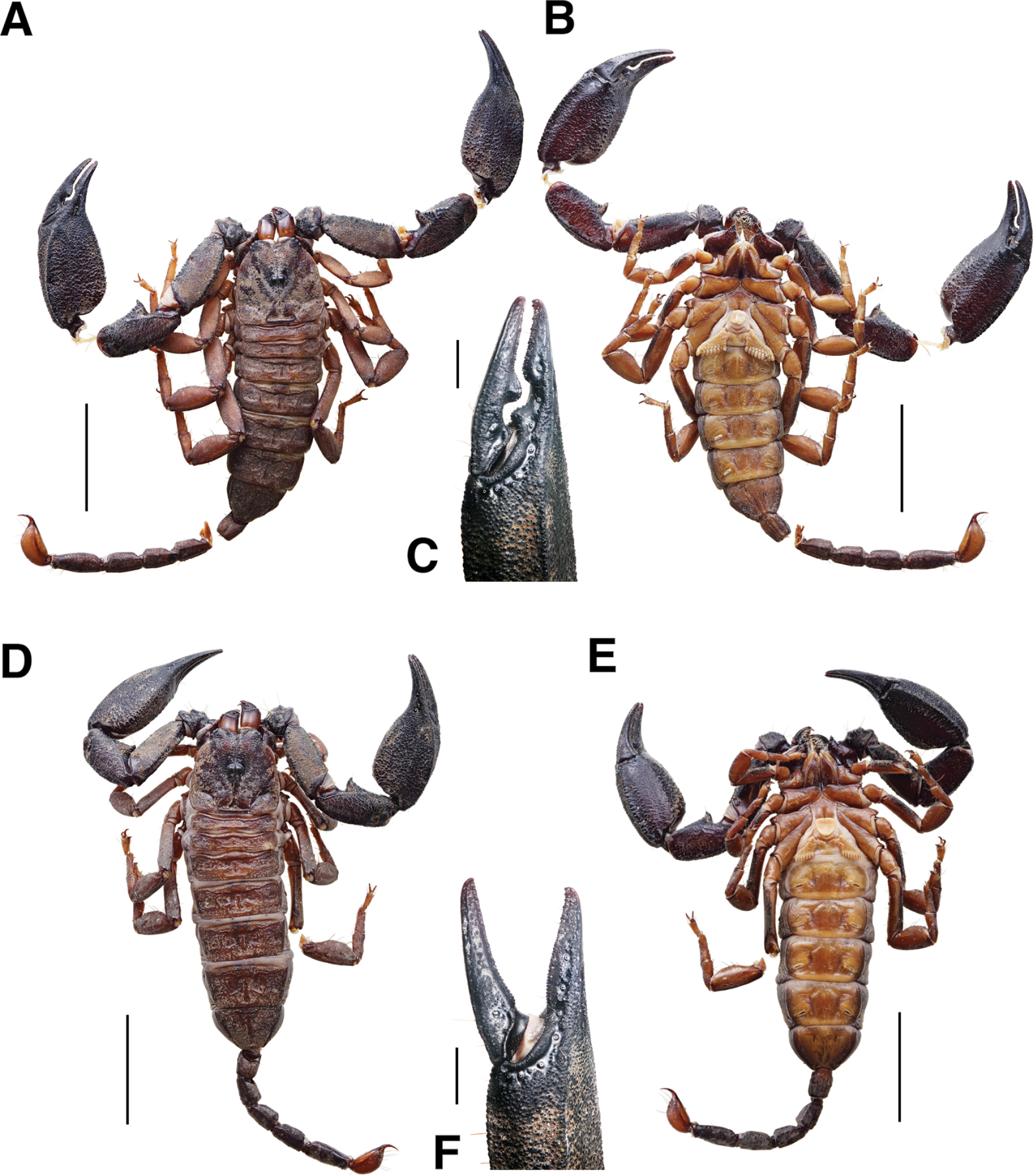 Figure 31; Hormurus papuanus Kraepelin, 1914, male lectotype (A–C), female paralectotype (D–F): A, D dorsal aspect of habitus B, E ventral aspect of habitus C, F retrolateral aspect of chela illustrating dentate margins of fingers. Scale bars: 10 mm (A–B, D–E), 2 mm (C, F). [= syn. of Hormurus karschii]